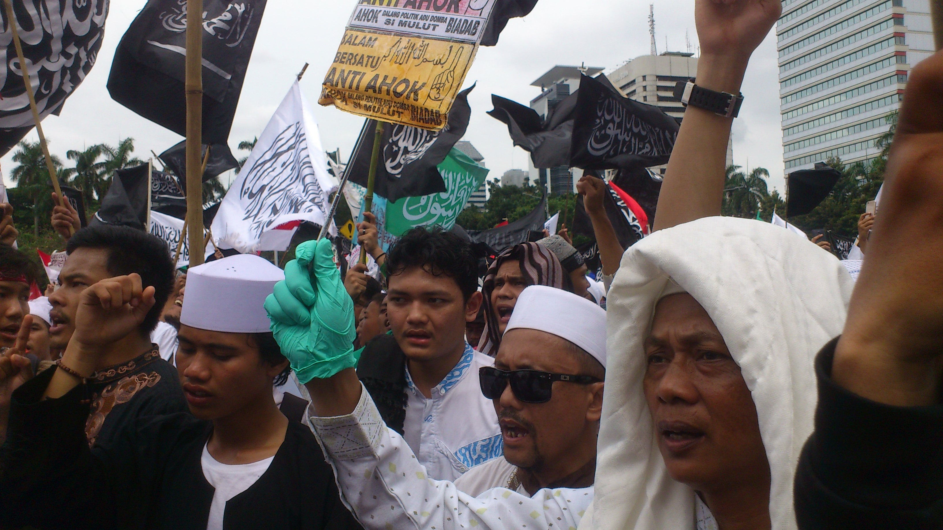 Protester at Aksi Bela Islam 313